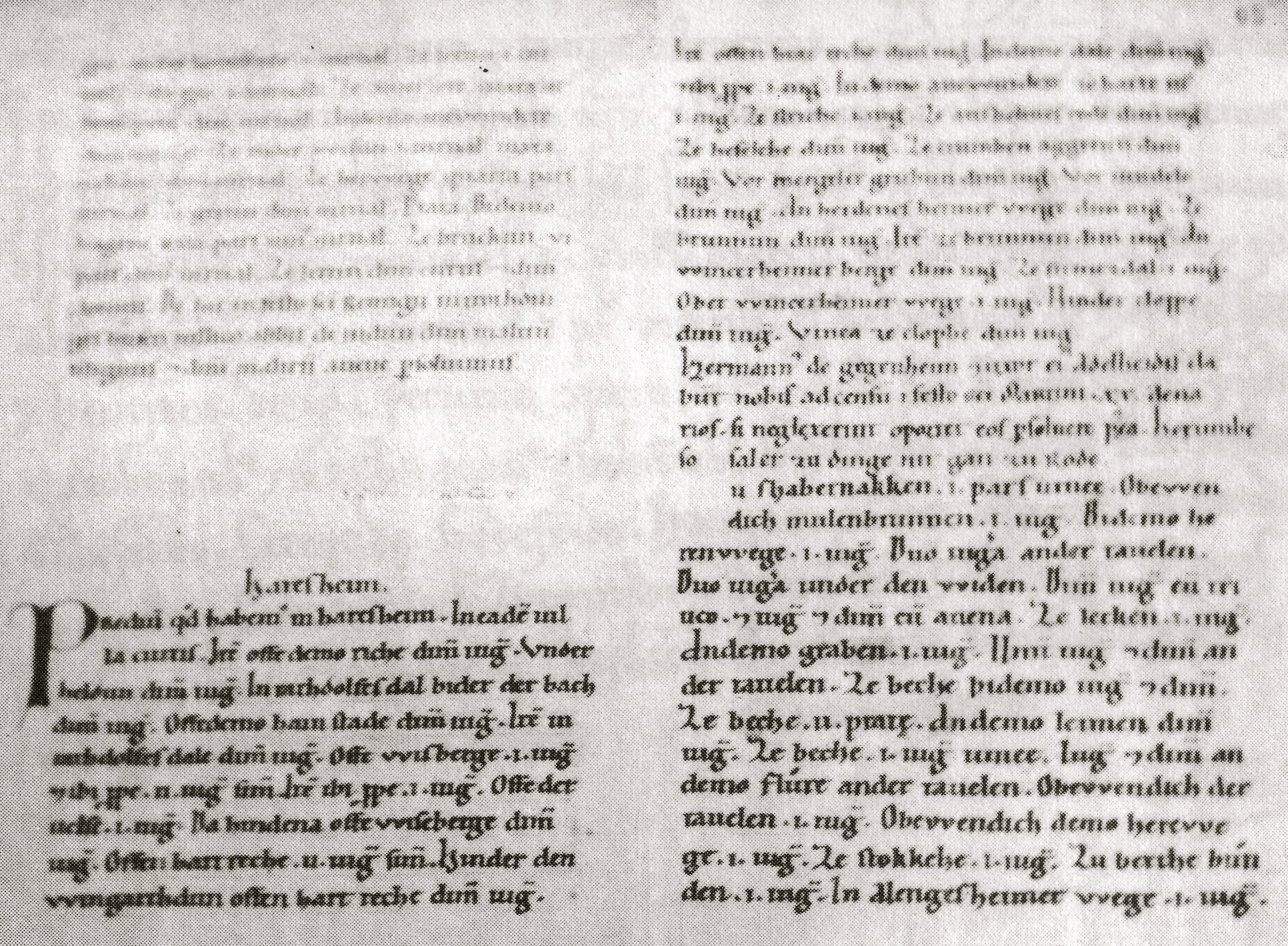 Mentioning of Hargesheim in medieval document